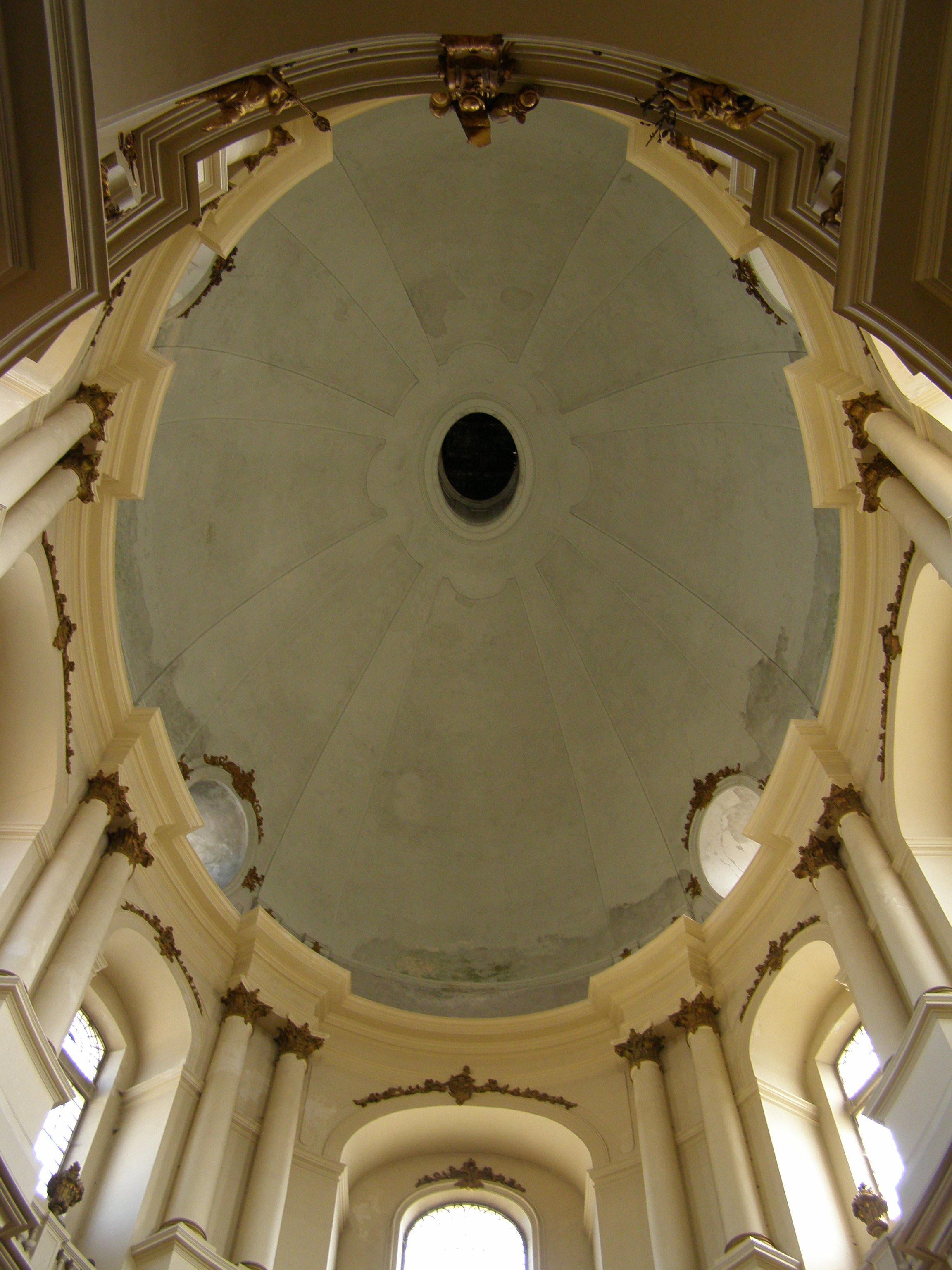 Lviv, Dominican church